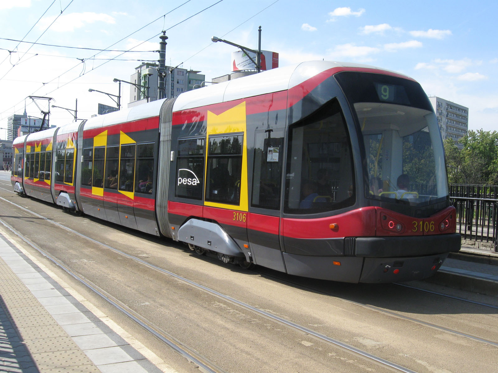 PESA 120N tram (#3106) in Warsaw, Poland.